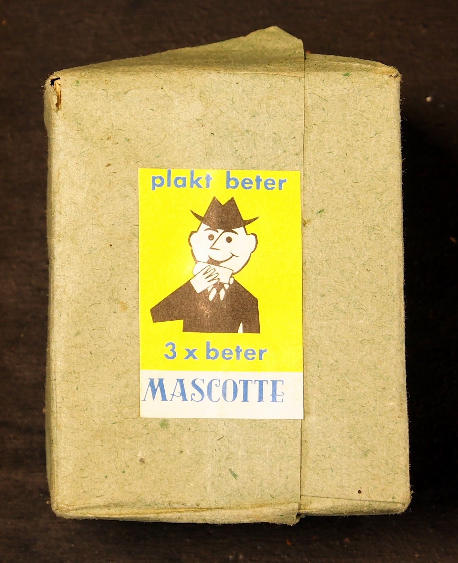 Old product that is not sold/produced anymore!